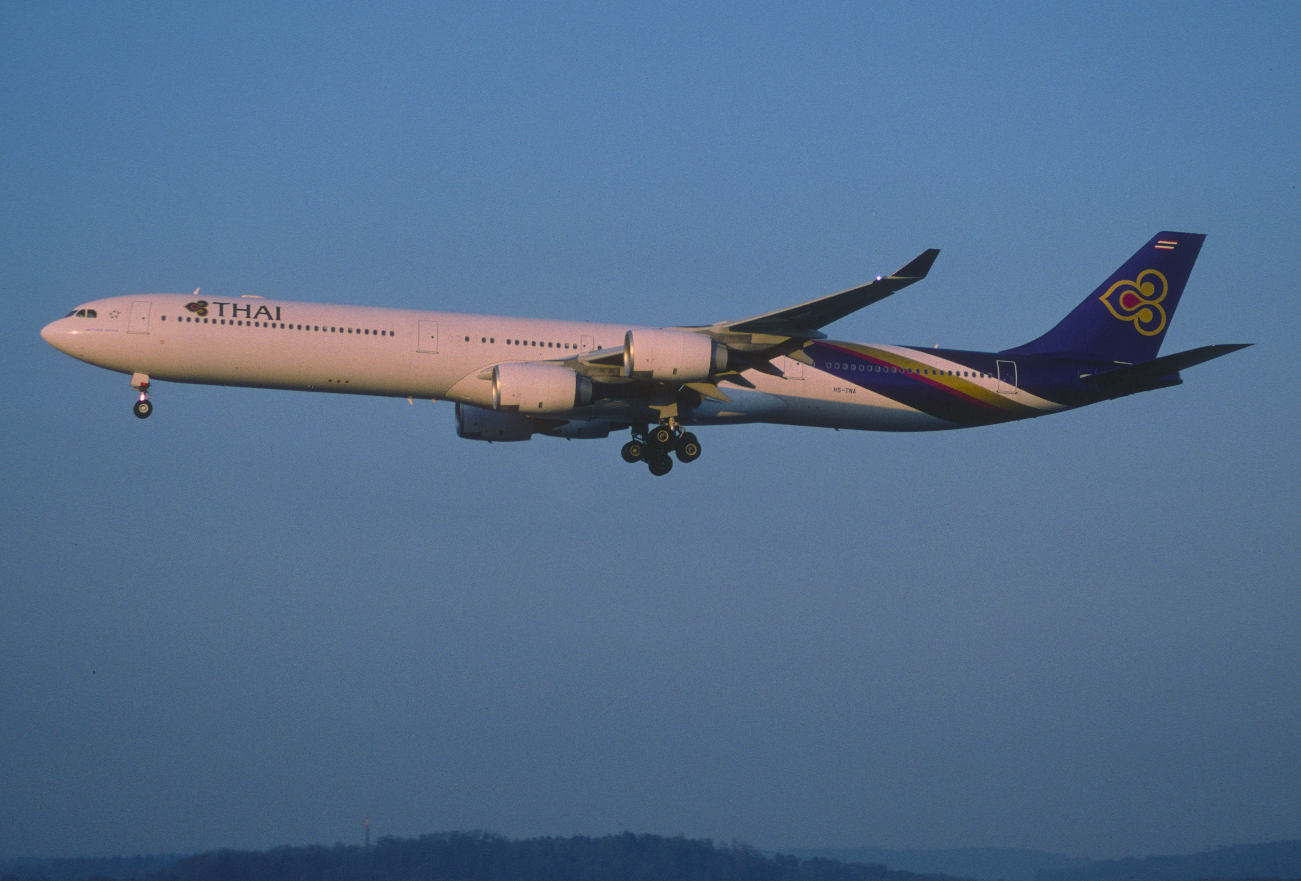 404al - Thai Airways International Airbus A340-600; HS-TNA@ZRH;07.04.2006